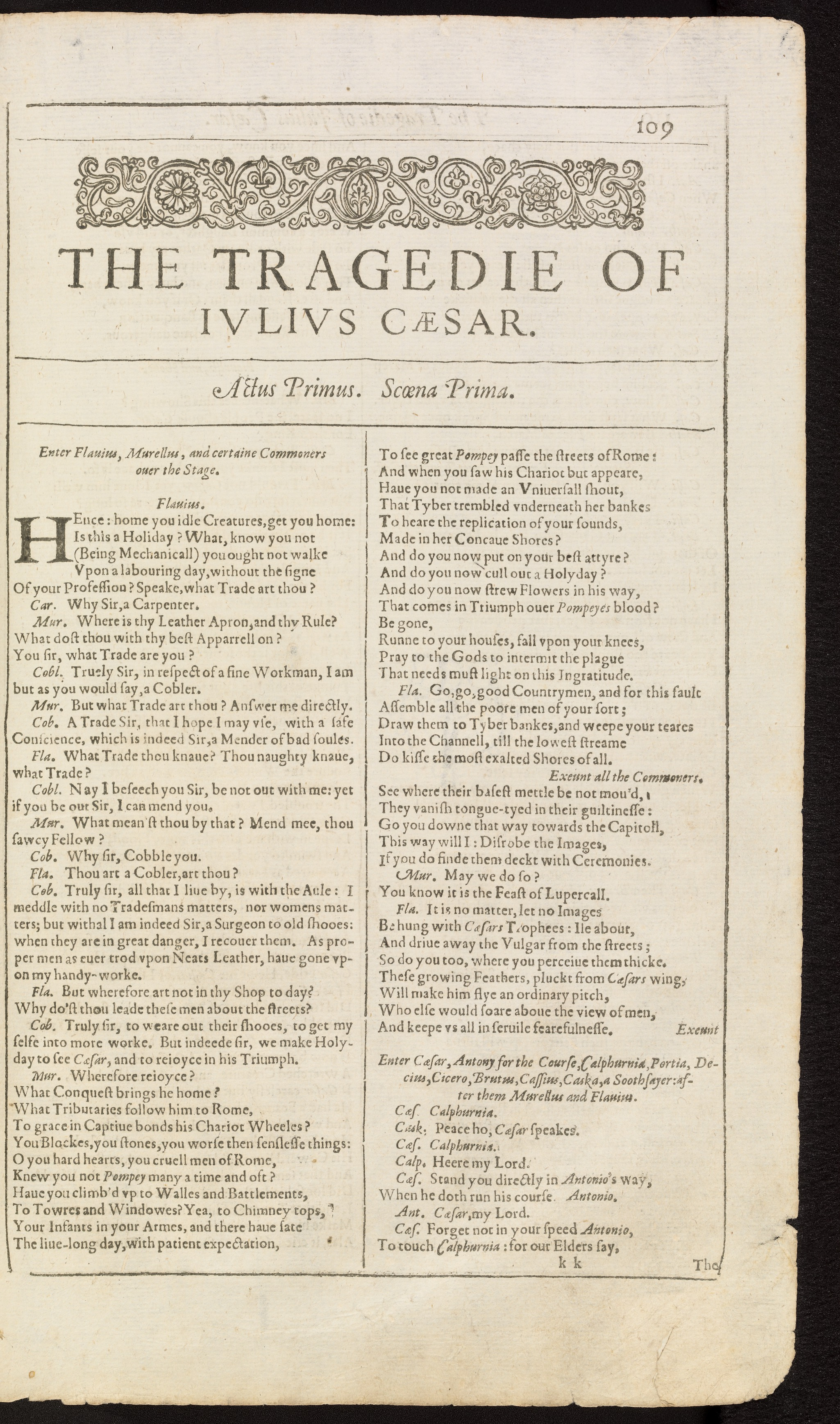 First page of The Tragedy of Julius Caesar from the Bodleian Library's First Folio of William Shakespeare's works, first received by the Library in 1623